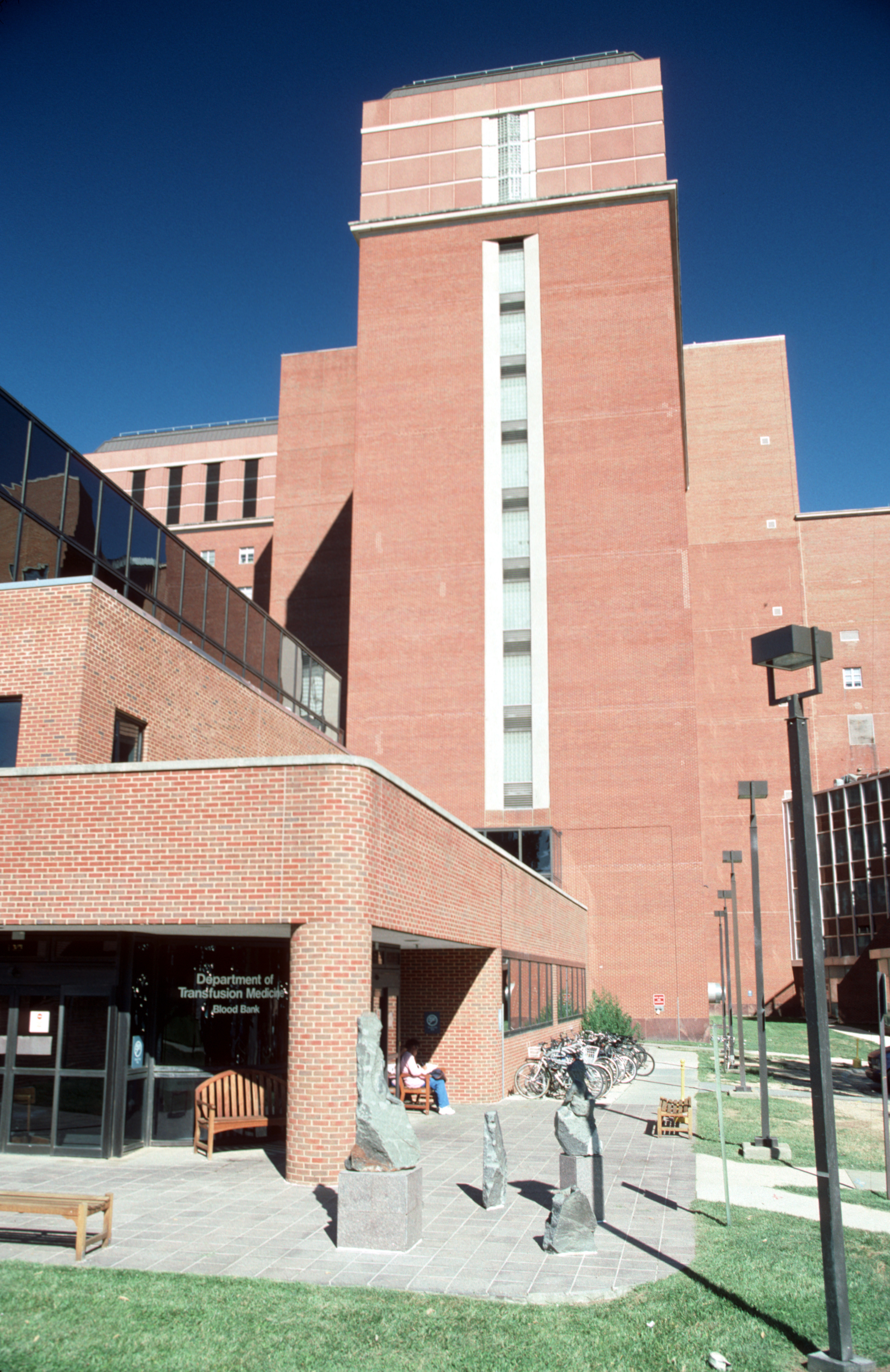 Title NIH Blood Bank Description A side view of Warren G. Magnuson Clinical Center (Building 10) at the National Institutes of Health (NIH). The foreground of this vertical image displays the entrance to the NIH blood bank. Topics/Categories Locations, NIH Type Color, Photo Source National Cancer Institute